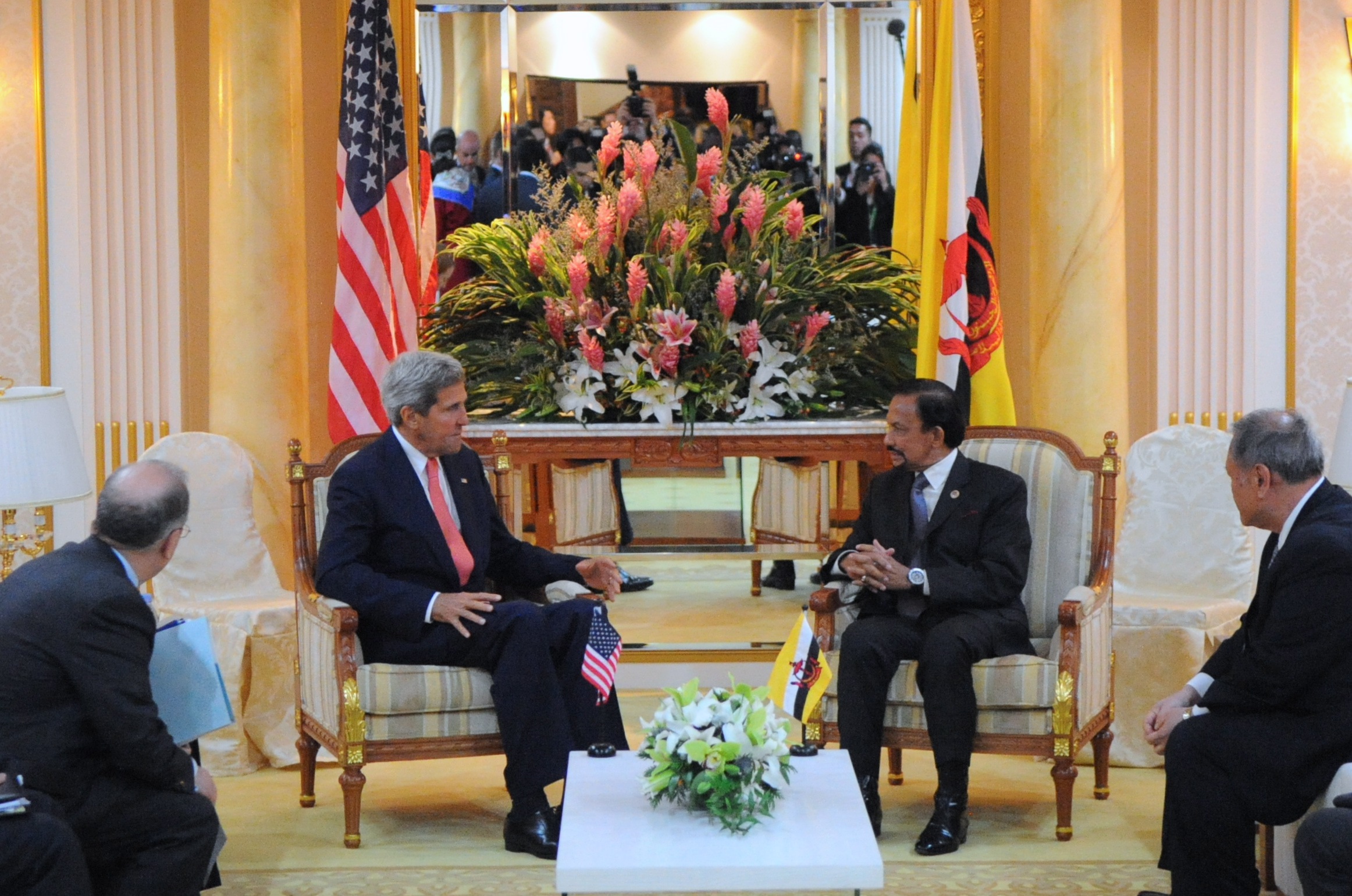 U.S. Secretary of State John Kerry meets with Sultan Haji Hassanai Bolkiah of Brunei after the East Asia Summit in Bandar Seri Begawan, Brunei, on October 10, 2013. [State Department photo / Public Domain]